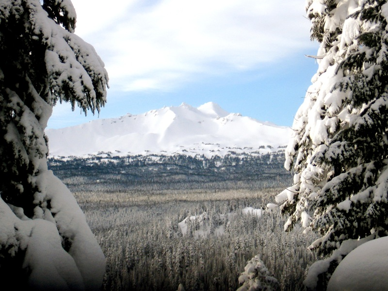 Diamond Peak from the Pacific Crest Trail, a short distance out of Gold Lake snow park near Willamette Pass in Oregon.